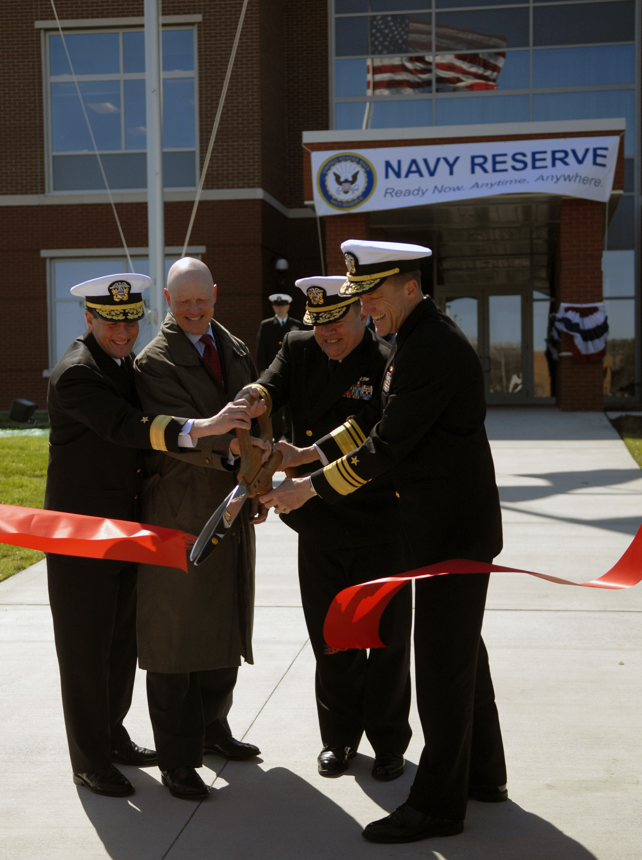 Norfolk (March 24, 2008) Rear Adm. Mark S. Boensel, commander, Navy Region Mid-Atlantic; Vice Adm. Peter H. Daly, deputy commander, U. S. Fleet Forces Command; Vice Adm. Dirk J. Debbink, commander, Navy Reserve Forces Command; and R. Kent Hudgens, deputy commander, Navy Reserve Forces Command; participate in the ribbon cutting ceremony for the opening of the new Navy Reserve Forces Command Headquarters at Naval Station Norfolk. The command will bring about 450 military and civilian employees who are responsible for the readiness, oversight and training of reserve Sailors.